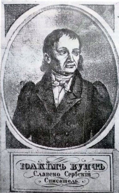 Image of Joakim Vujić